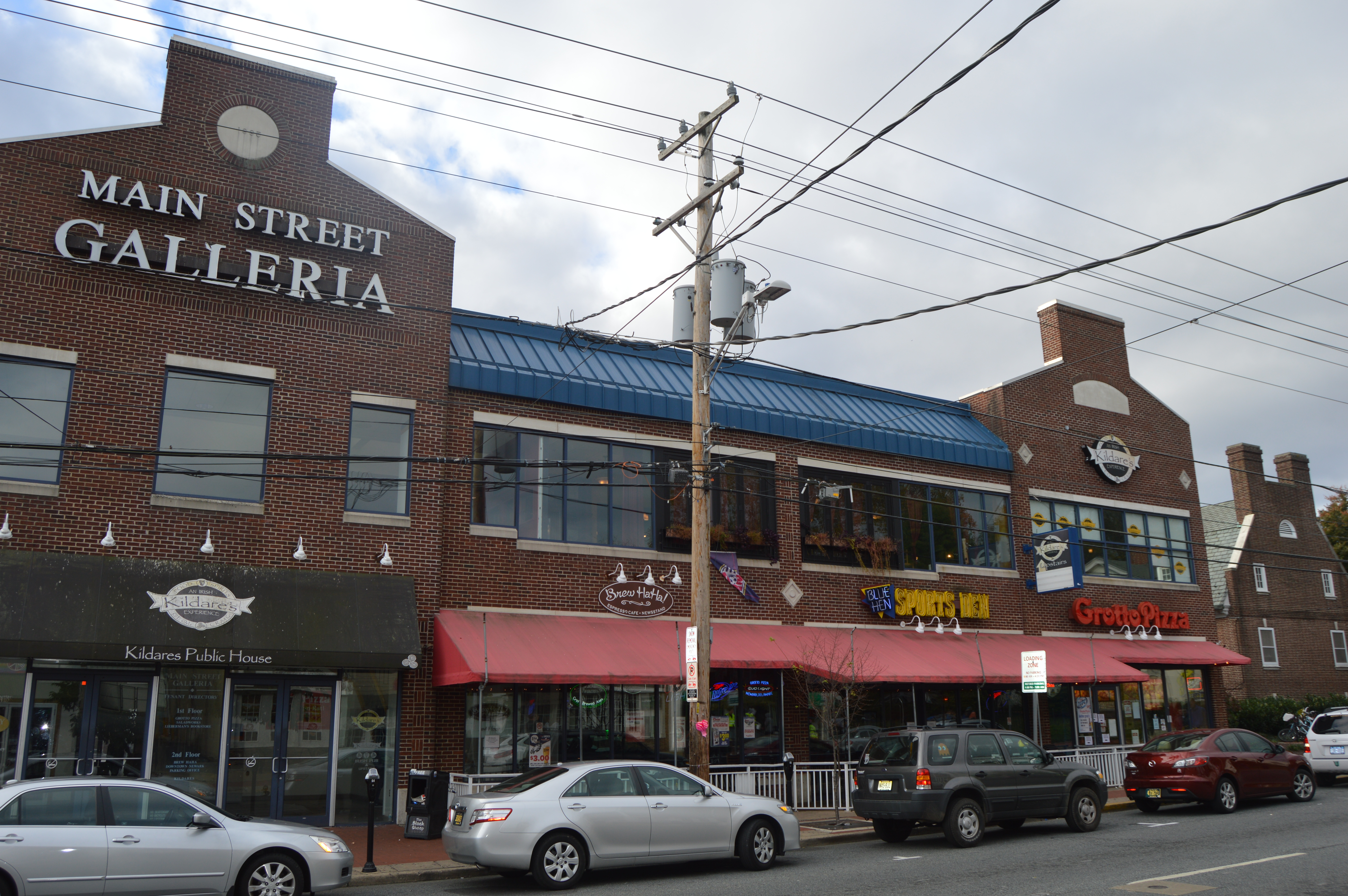 Front of the Main Street Galleria, located at 45 E. Main Street (Delaware Routes 2/273) in downtown Newark, Delaware, United States. The current building occupies the site of the State Theater, formerly located at 39 E. Main Street; it was listed on the National Register of Historic Places in 1983, and although destroyed in 1989, it has not yet been removed from the Register.